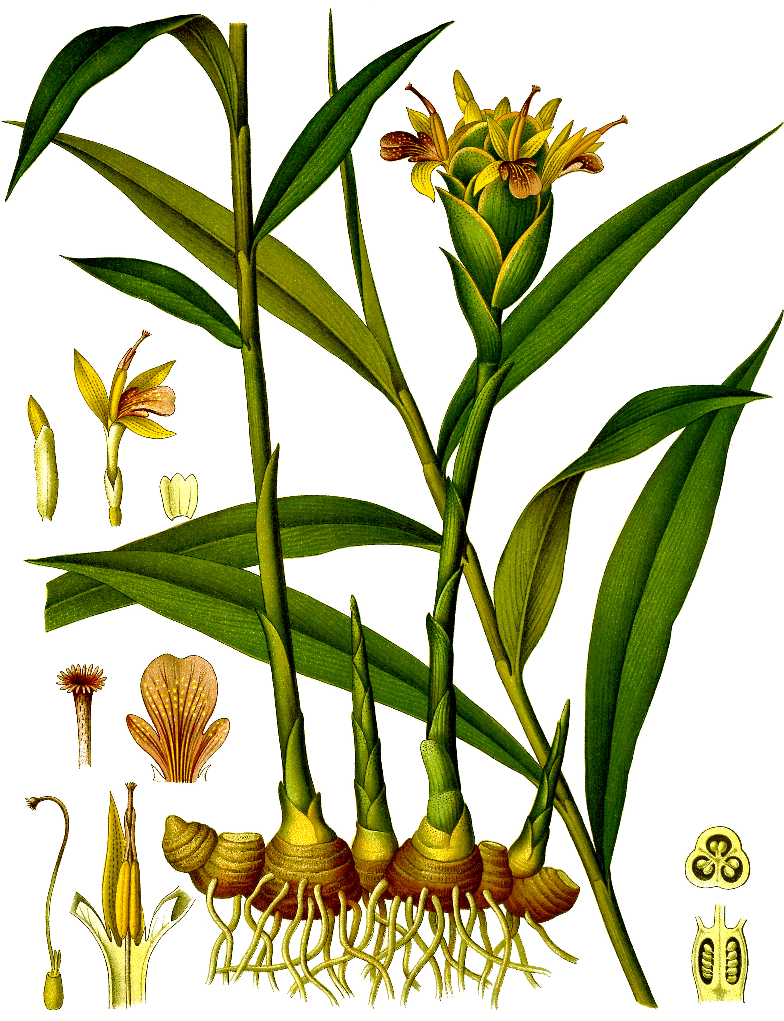 Illustration of Zingiber officinale Roscoe